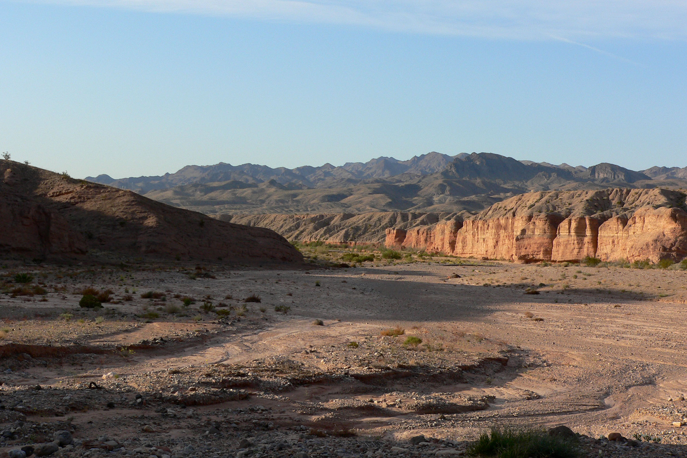 View of Gypsum Wash looking south from near where Lakeshore Drive crosses it, River Mountains visible on the horizon, Lake Mead National Recreation Area, southern Nevada